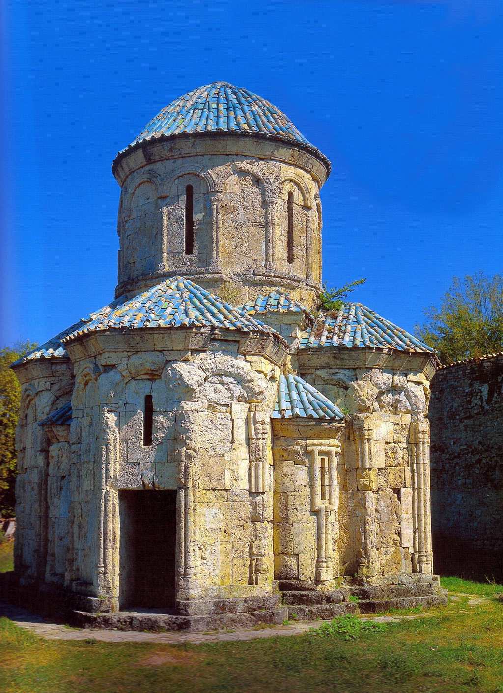 Georgia, Kakheti, Kvetera, Orthodox сhurch, early 10th century